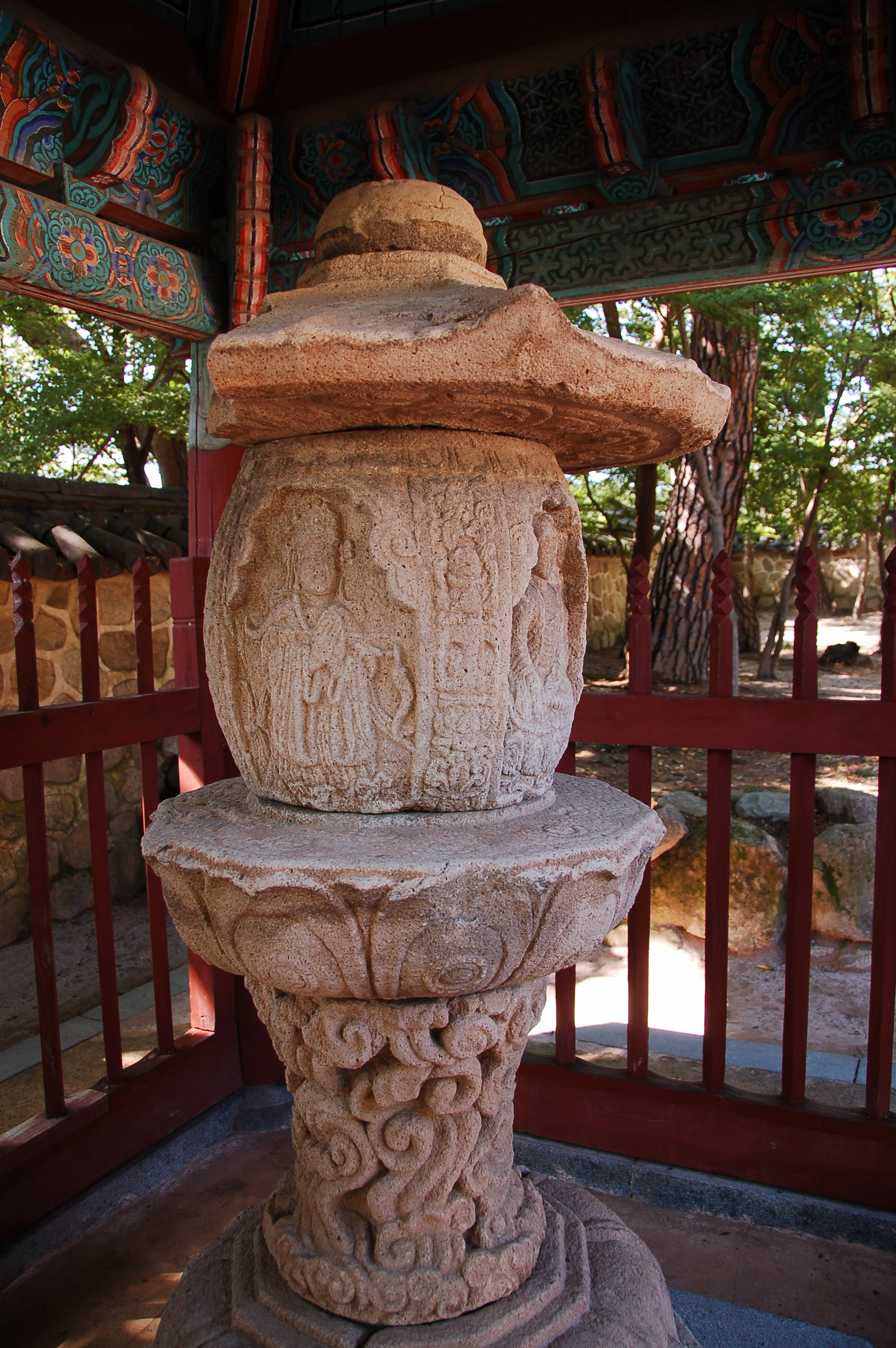 Stupa containing the relics of priests or a queen. It is classified by the South Korean government as Treasure No. 61. This unique stupa is located in the Bulguksa temple of South Korea.